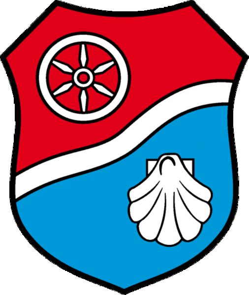 Coat of Arms of Uder